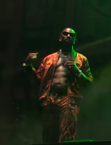 GUCCI MANE - I THINK I LOVE HER BRICKS - LIVE @ AMF DTLA 2018 - 8.18.2018